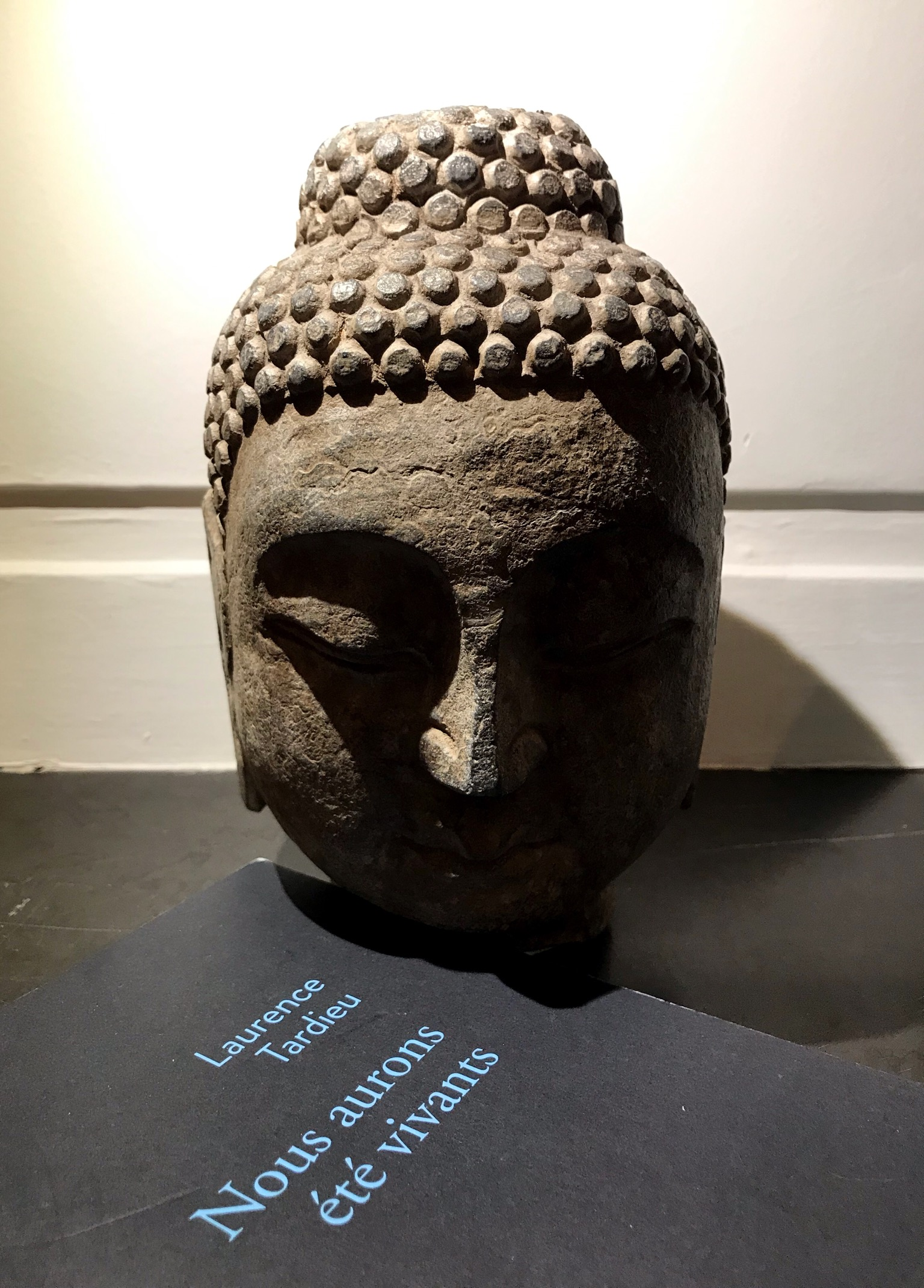 Book « nous aurons été vivants » of French writer Laurence Tardieu, in my chinese office